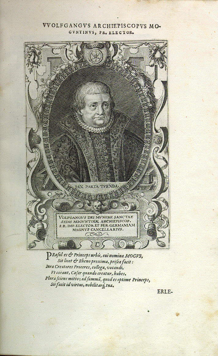 Elector and archbishop of Mainz from 1582 to 1601